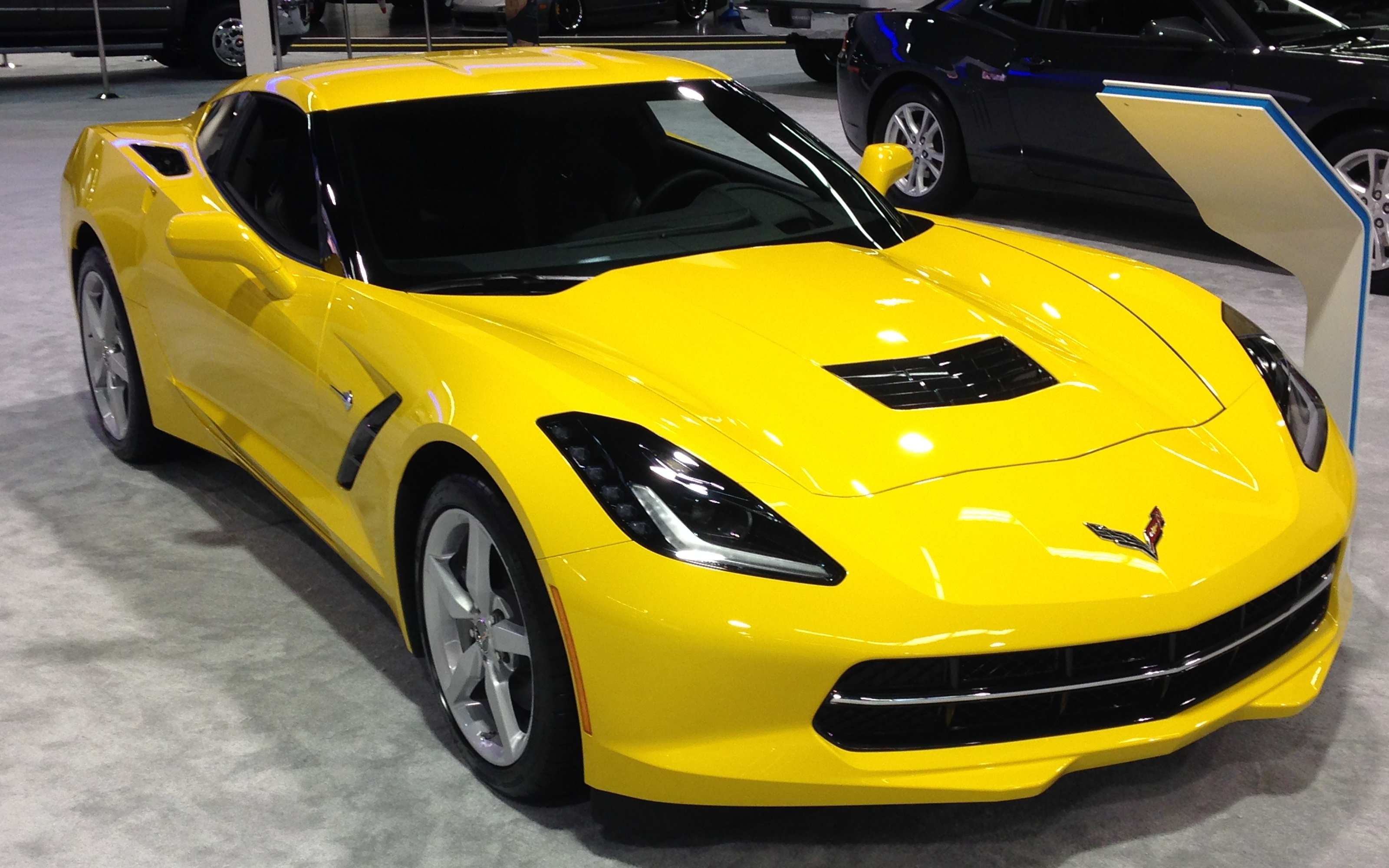 The new C7 Chevrolet Corvette at the 2013 LA Auto Show. Front view looks great.